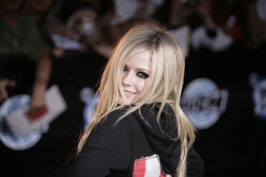 Avril Lavigne at the 2007 MuchMusic Video Awards red carpet.